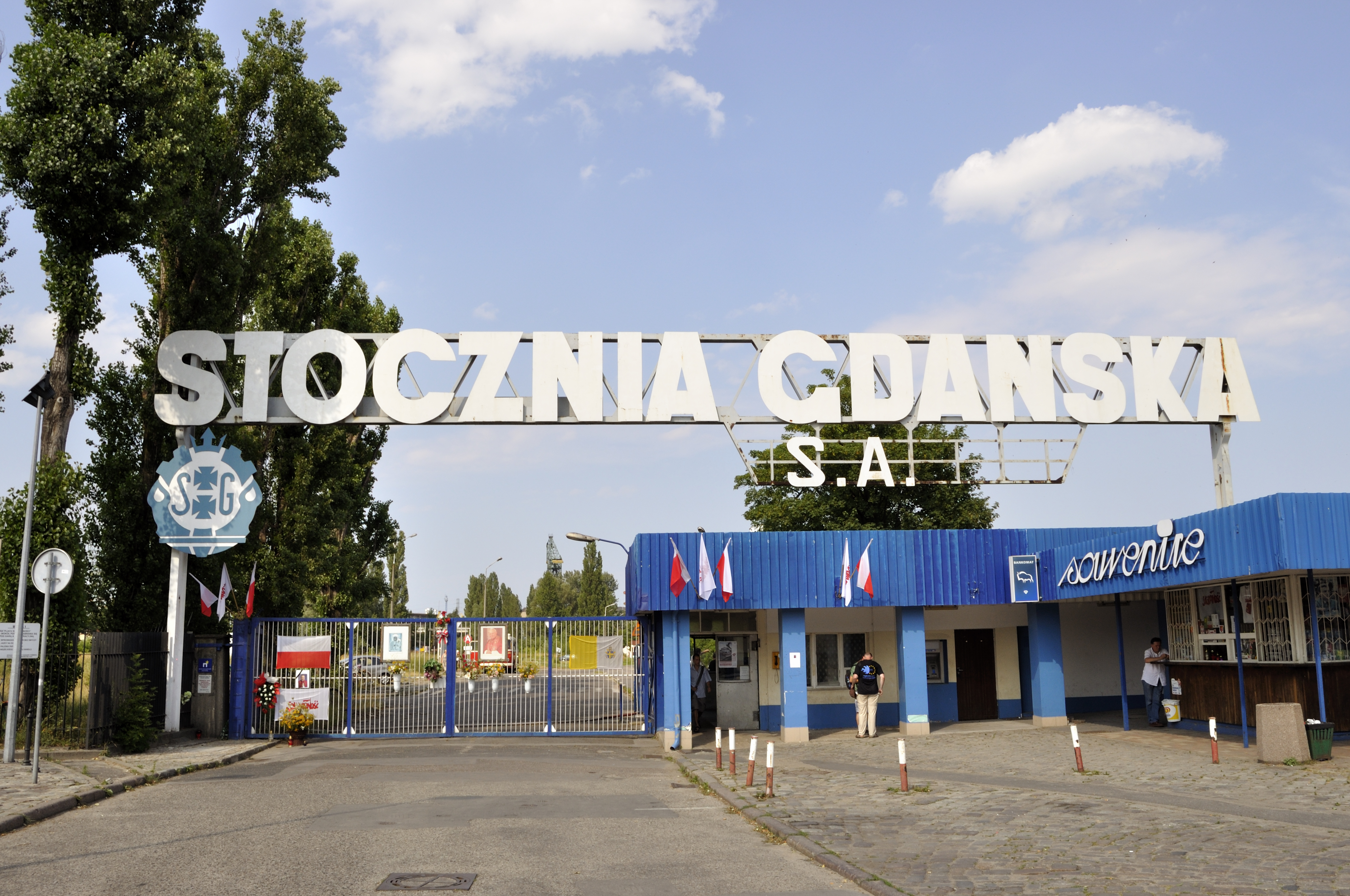 Picture taken in Gdańsk after Wikimania 2010 conference.